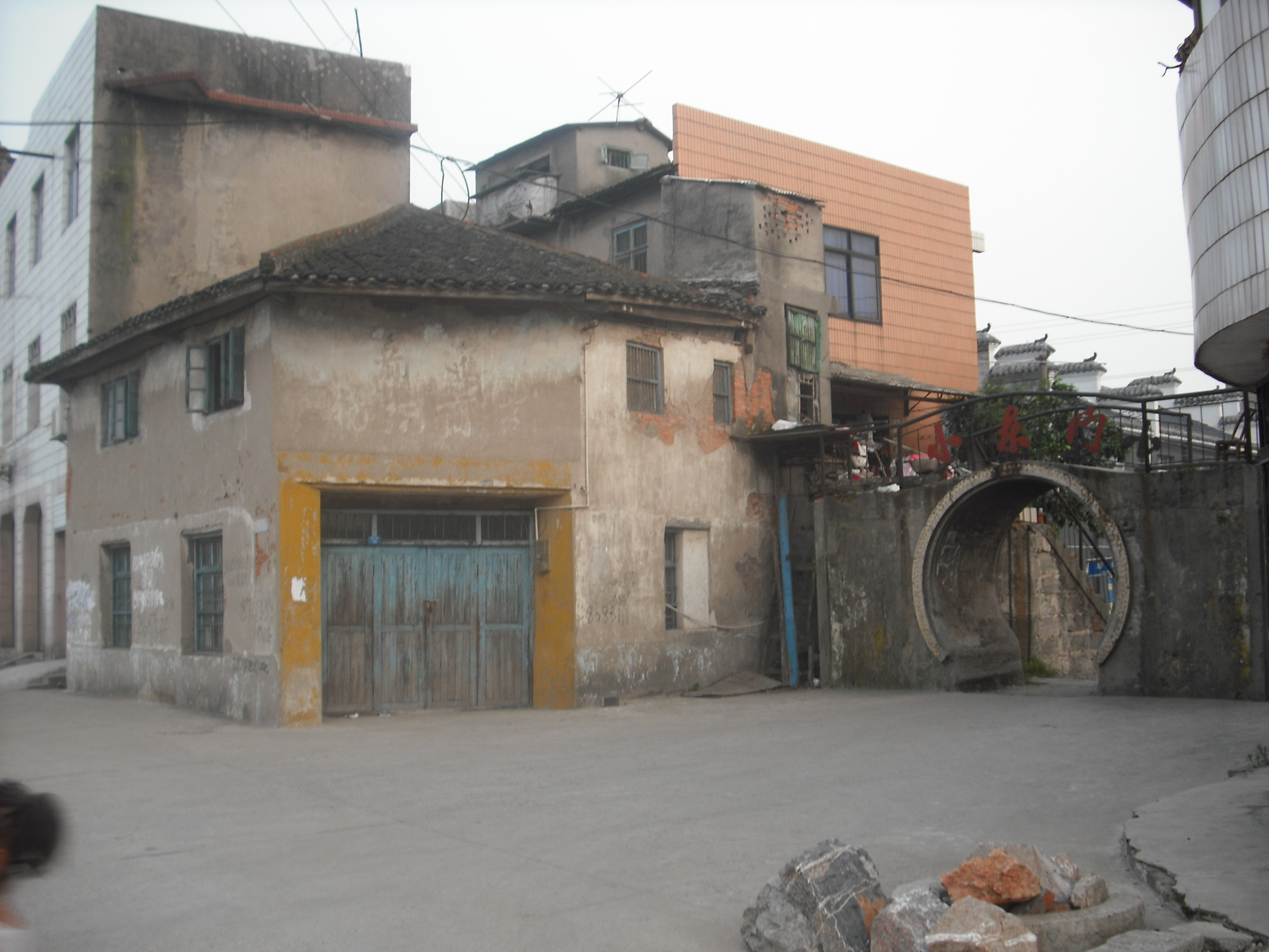 the vice-east gate and qianjin fabric store in Zhicheng town, Yidu City, HUBEI, China.